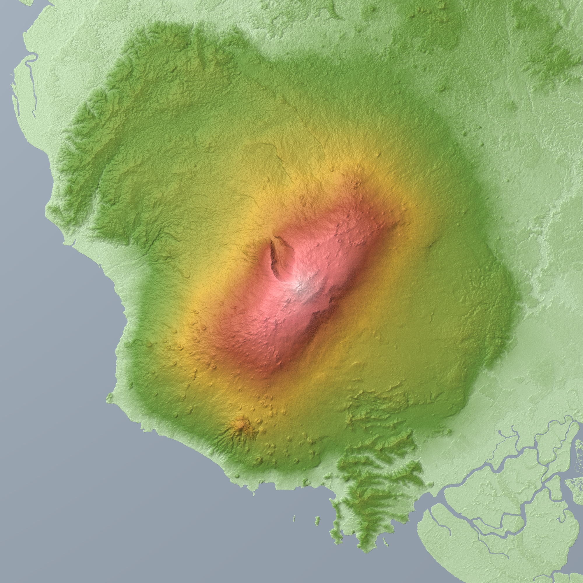 Mount Cameroon in Cameroon.